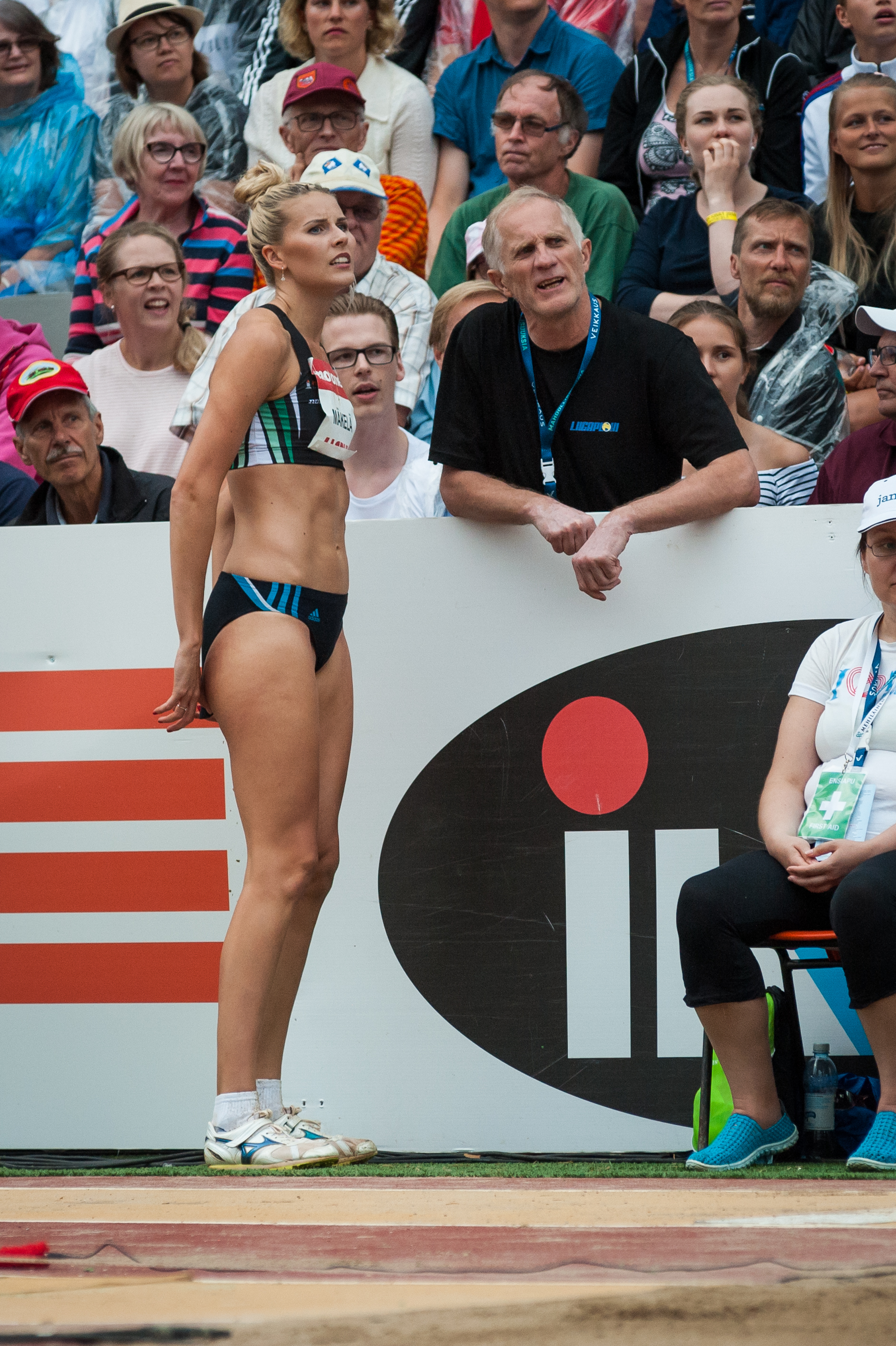 Women's triple jump competition at the 2018 Kalevan Kisat, the Finnish championships in athletics, in Jyväskylä, Finland.